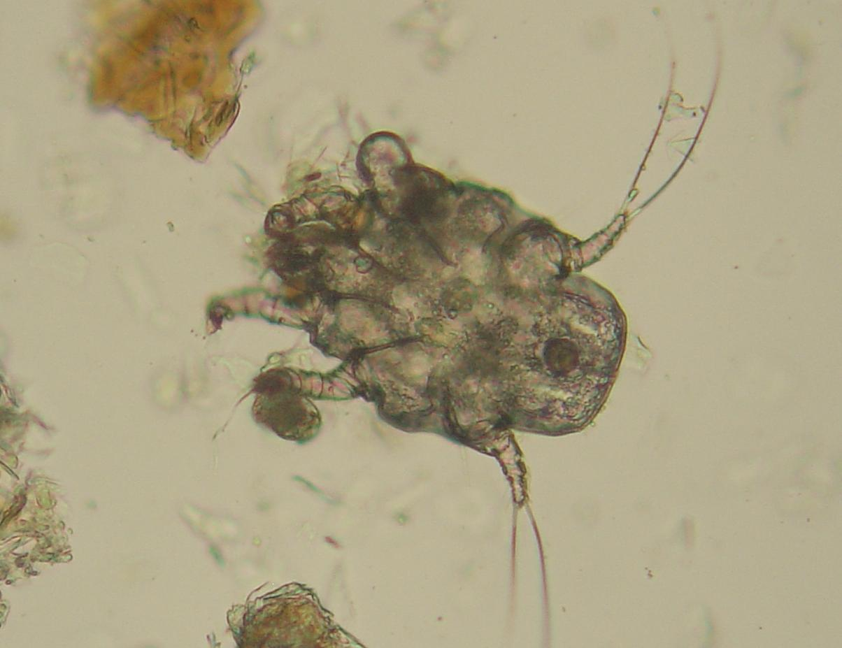 Photo taken at 100x magnification through a microscope of an ear mite (Otodectes cyanotis).